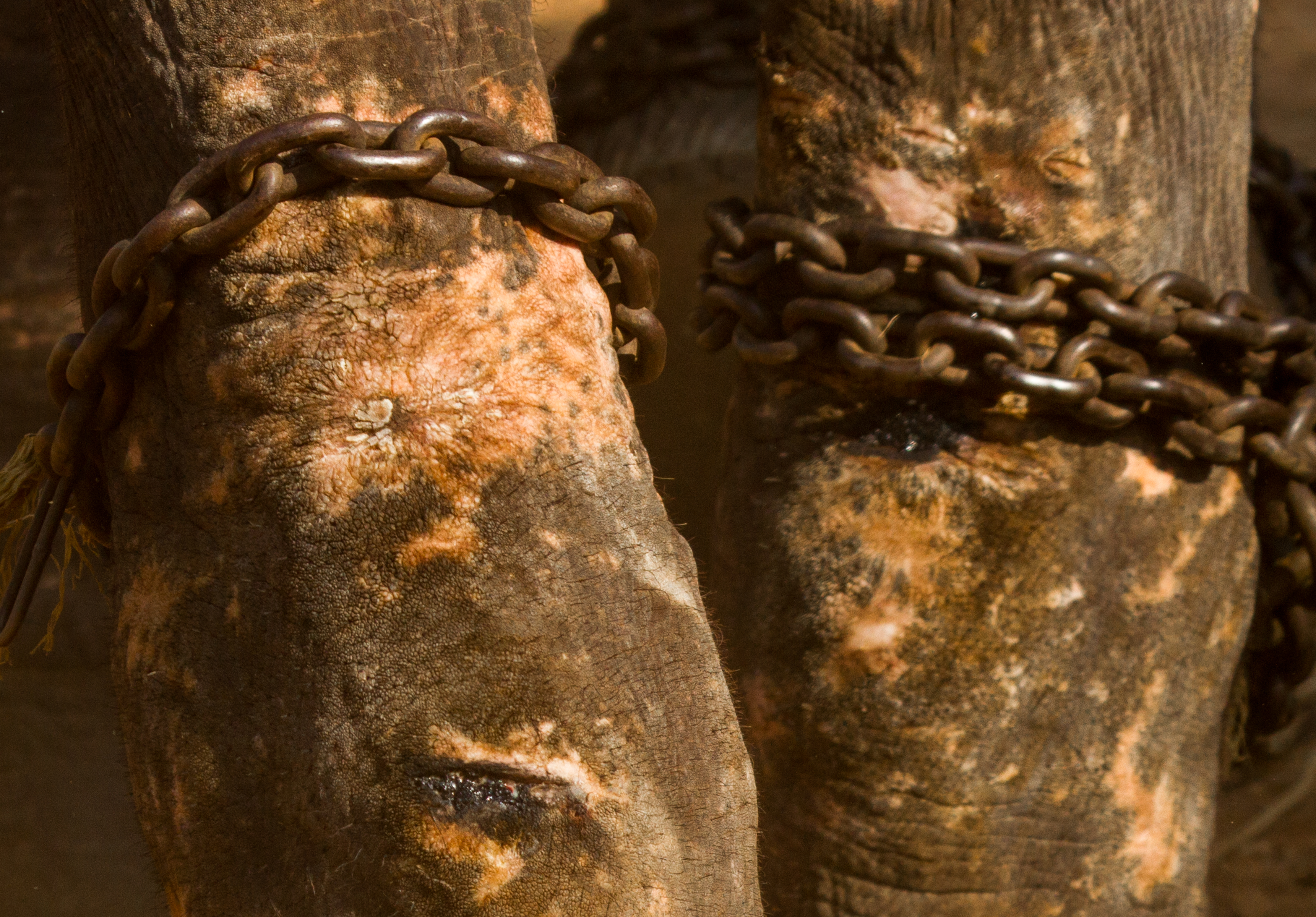 Captive Elephants of Kerala, Cruelty against elephants, Aanapremam, Thrissur Pooram, Festivals of Kerala, Elephants in captivity, Temples of Kerala